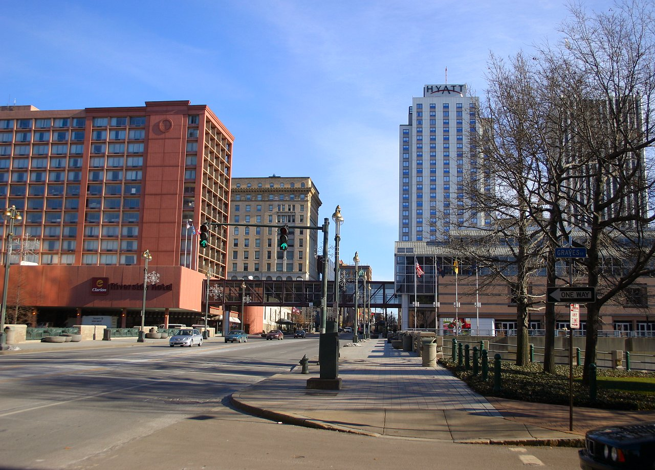 Main Street looking east, Rochester, New York